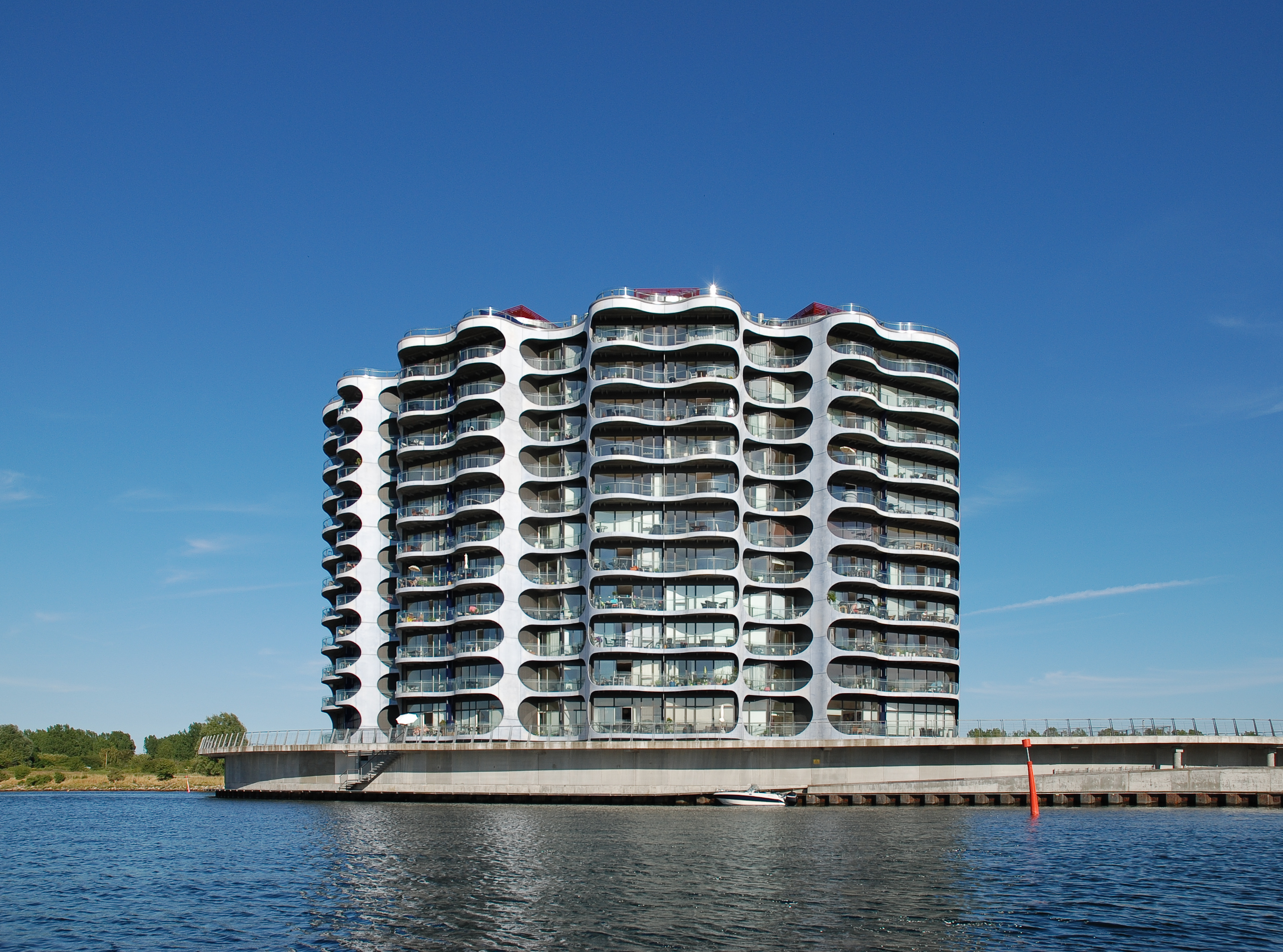 The residential building Metropolis on Sluseholmen in Copenhagen.